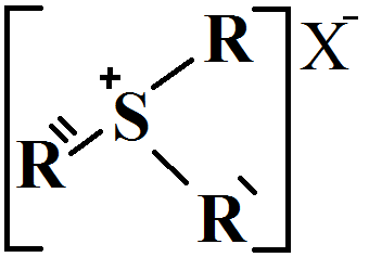 bla-bla